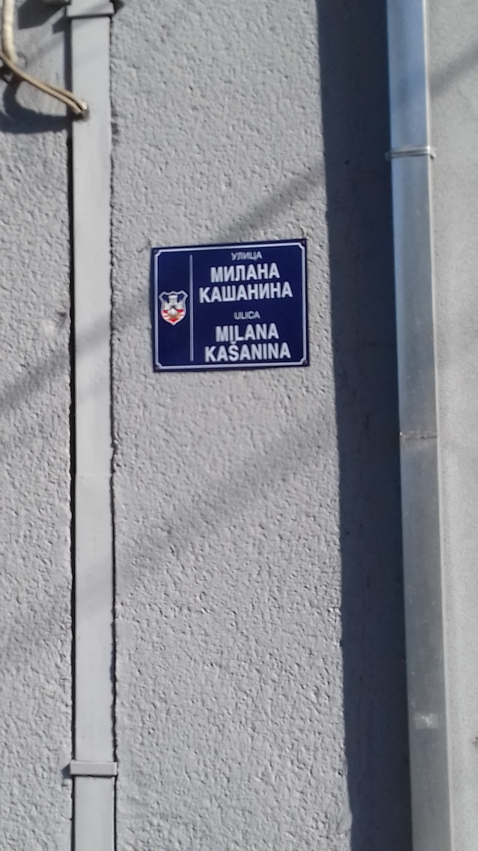 Board for the name of Milana Kasanina street in Belgrade, Serbia Srpski (latinica): Tabla za naziv ulice Milana Kasanina u Beogradu, Srbija